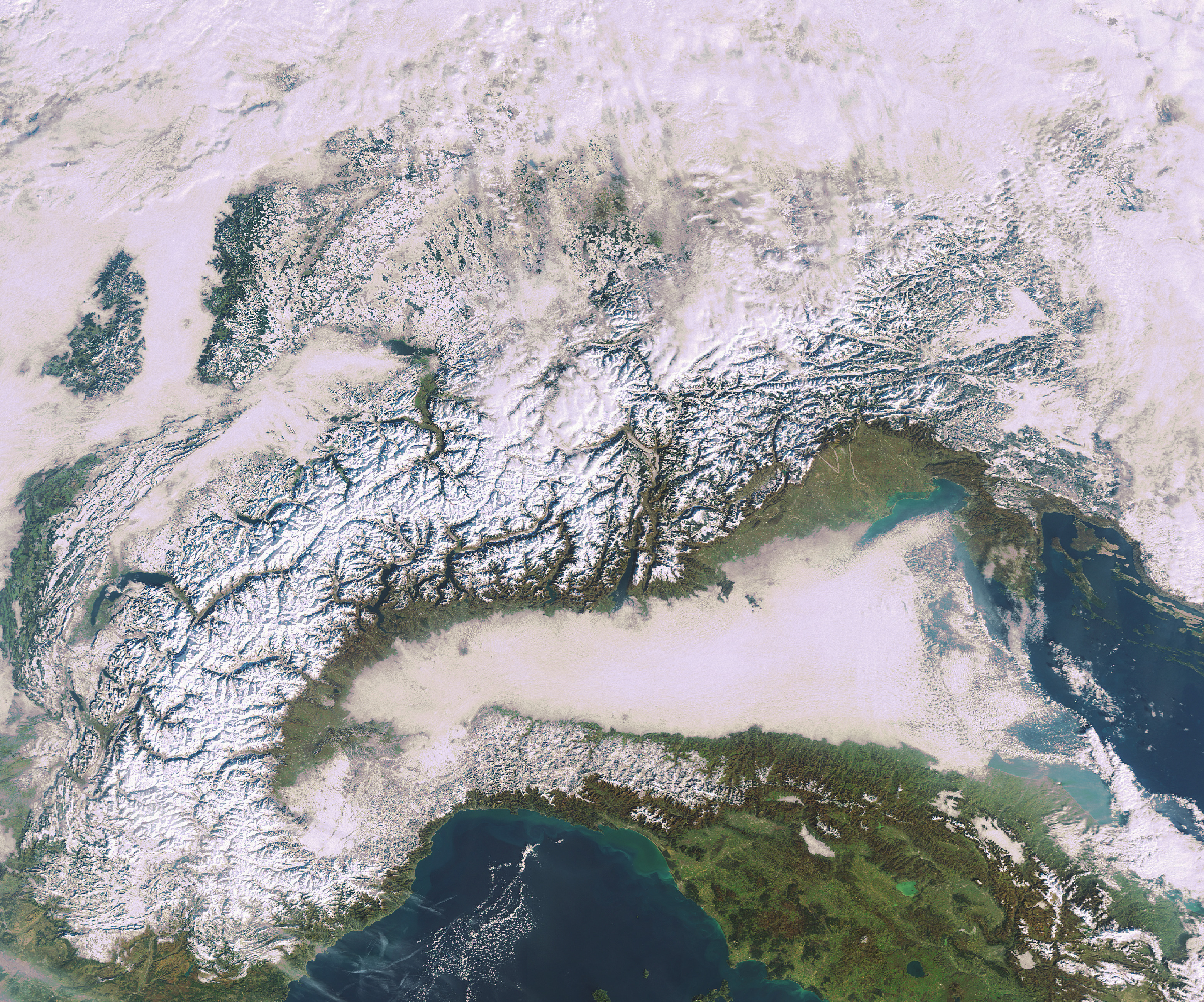 This Envisat satellite image, acquired by the Medium Resolution Imaging Spectrometer (MERIS) instrument on 19 January 2010, captures fog cover over the Po Valley in northern Italy and snow cover over the Alps (seen stretching across the centre) in south-central Europe. Lake Garda, Italy’s largest lake with an area of some 370 sq km, is visible at the foot of the Alps in the centre of the image. Two other substantial lakes visible west of Lake Garda are Lake Como (146 sq km), shaped liked an upside-down ‘Y’, and Lake Maggiore (212 sq km). Lakes visible on the Italian Peninsula include Trasimeno (green) and Bolsena (blue). All lakes of central Italy are of volcanic origin and are resting in former volcano craters, which accounts for their almost perfectly round shape.